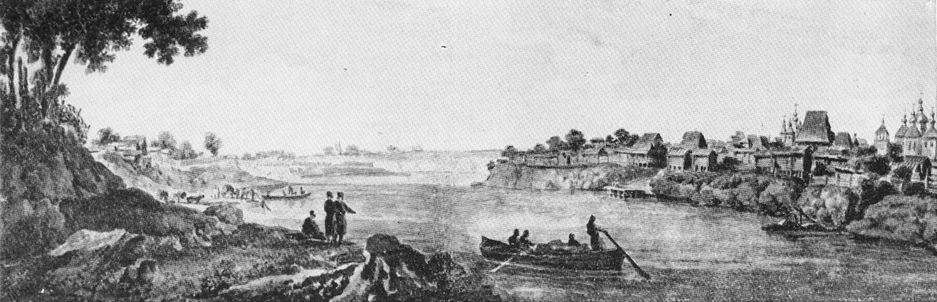 View of Dubroŭna